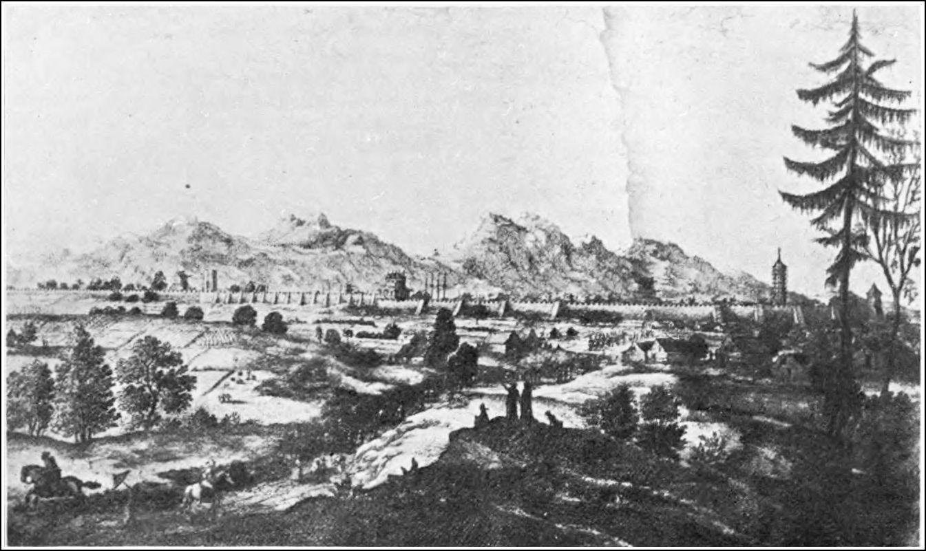 Ancient view of Beijing